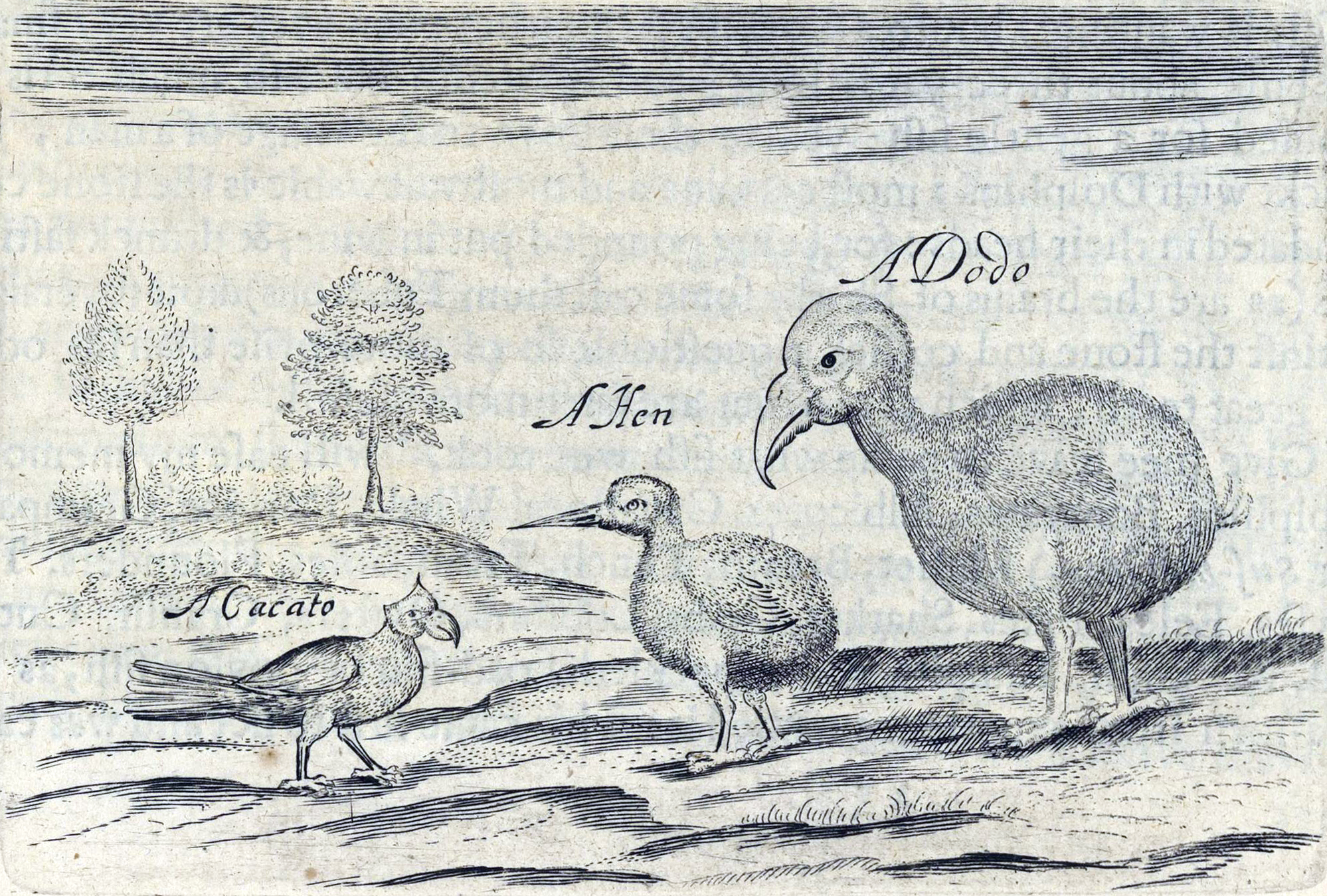 Broad-billed Parrot (Lophopsittacus mauritianus) named Cacato (Cockatoo) here because of its appearance, a dodo, and a red rail (red hen).